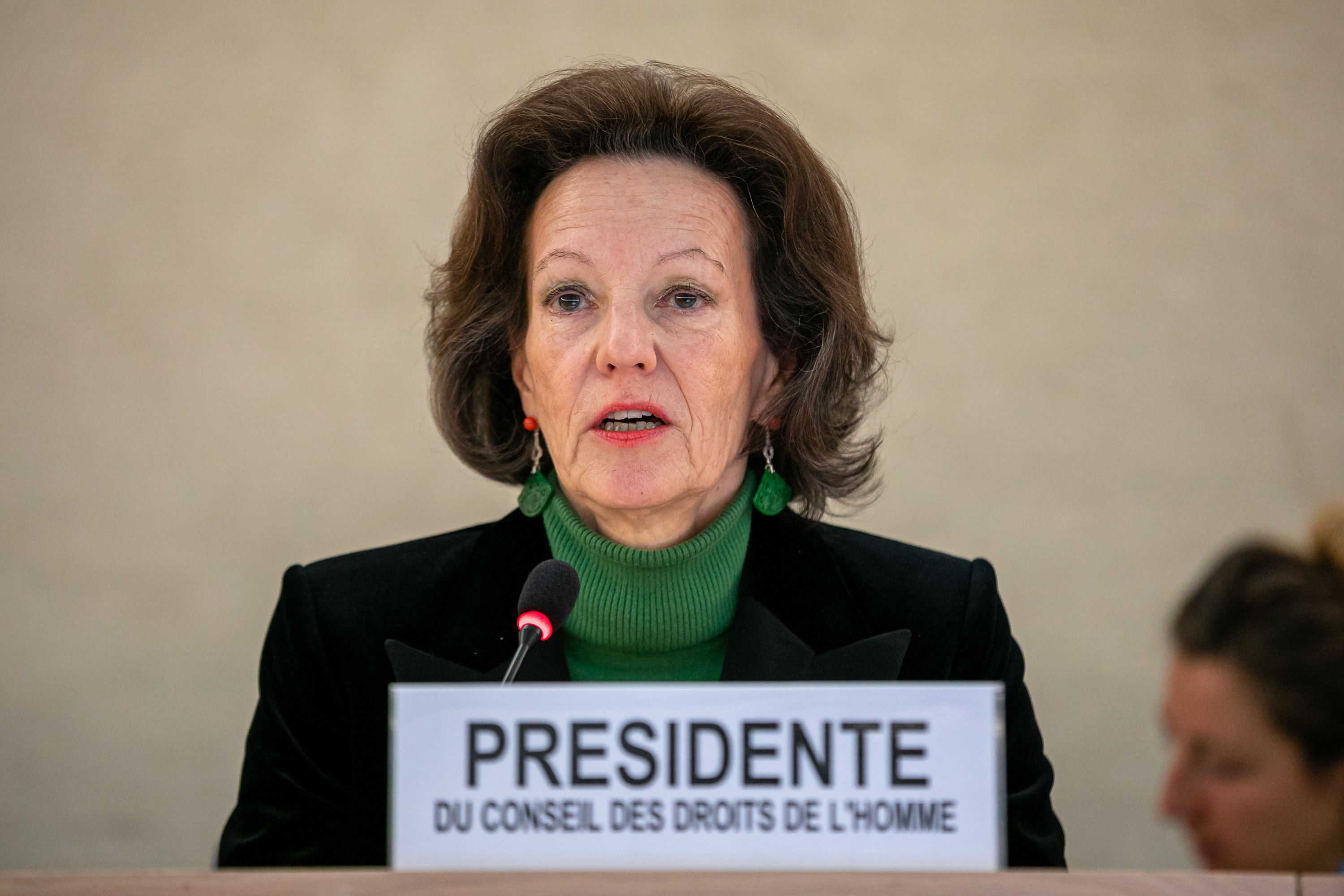 H.E. Ms. Elisabeth TICHY-FISSLBERGER, President of the Human Rights Council, High-level segment of the 43rd session of the Human Rights Council, Palais des Nations, Geneva, Switzerland, February 25th, 2020.– UN Photo/Antoine Tardy